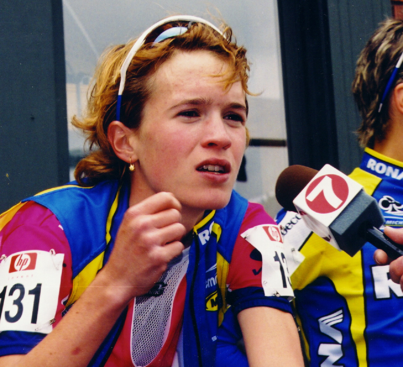 Geneviève Jeanson speaks to the press following the Stanley to Ketchum Road Race (stage 4 of the 2002 Women's Challenge).